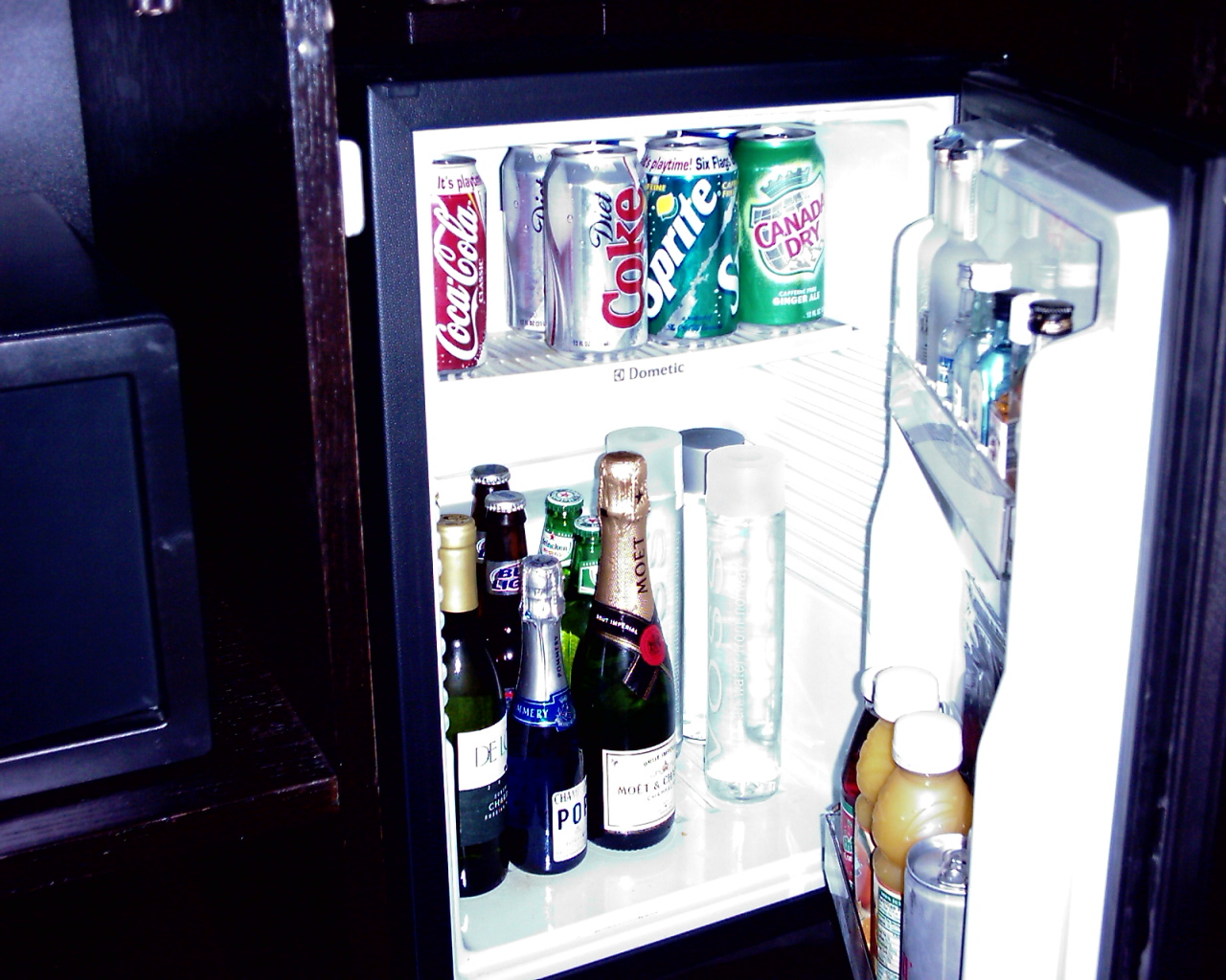 Well stocked mini-bar!: Mini bar, W hotel, Chicago, Adams.